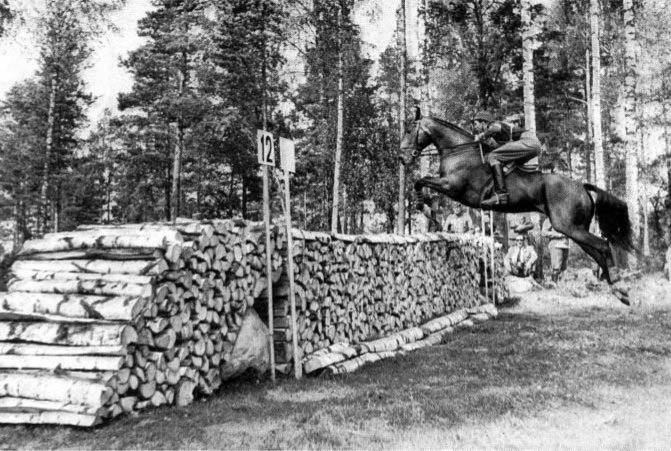 Hans von Blixen-Finecke, Jr. and Jubal at the 1952 Summer Olympics in Helsinki.